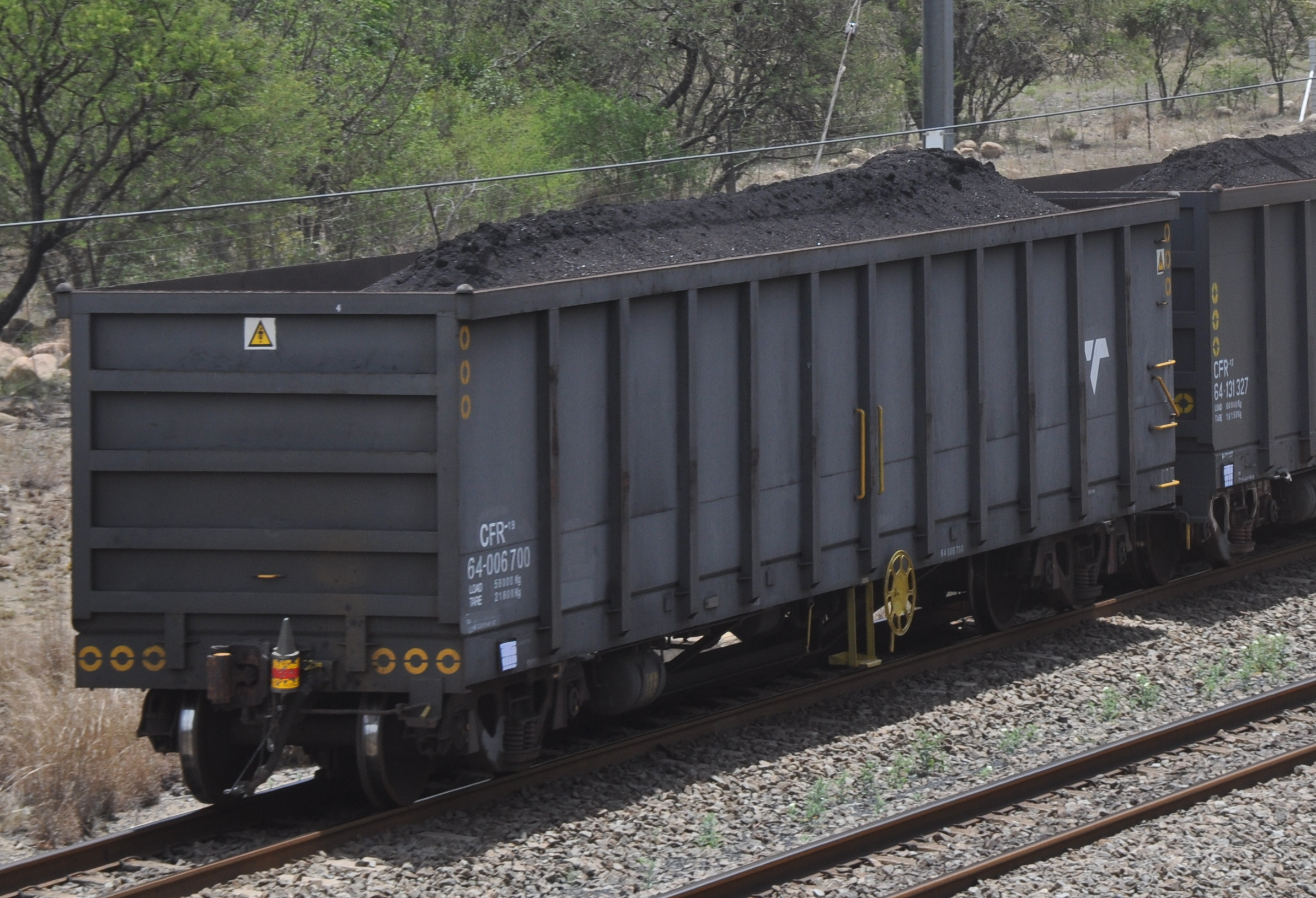 Small coal car CFR-13 fitted with dual power air brakes. Tara weight: 21,8 t. Load: 58 t